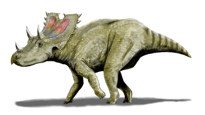 Agujaceratops mariscalensis, a ceratopsian from the Late Cretaceous of Texas, pencil drawing, digital coloring